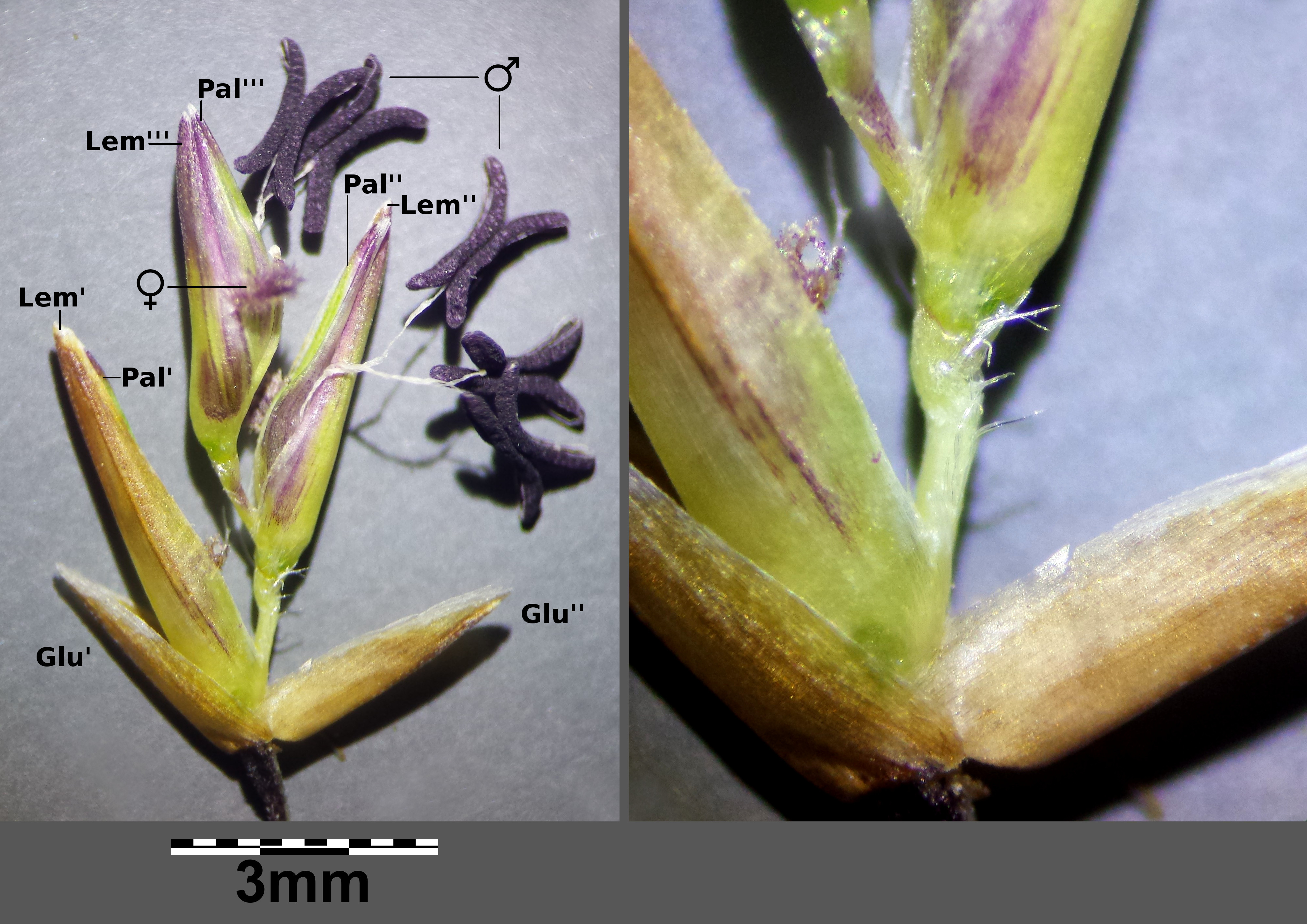 Spikelet Glu = Gluma Lem = Lemma Pal = Palea Right side showing hairs on spindle of spikelet Taxonym: Molinia arundinacea ss Fischer et al. EfÖLS 2008 ISBN 978-3-85474-187-9 Location: Steinberg near Niederhollabrunn, district Korneuburg, Lower Austria - ca. 375 m a.s.l. Habitat: semi-dry grassland